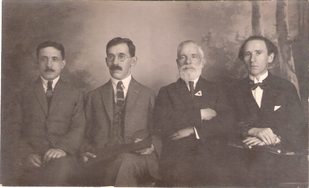 The 13th Zionist Congress (1923), L-R: Yehoshua Fridman, Yitzchak Vilkanski (Volcani) and Eliezer Eliyahu Fridman. Vilkanski and the forth person are distant relatives of E.E. Fridman and his son Yehoshua.